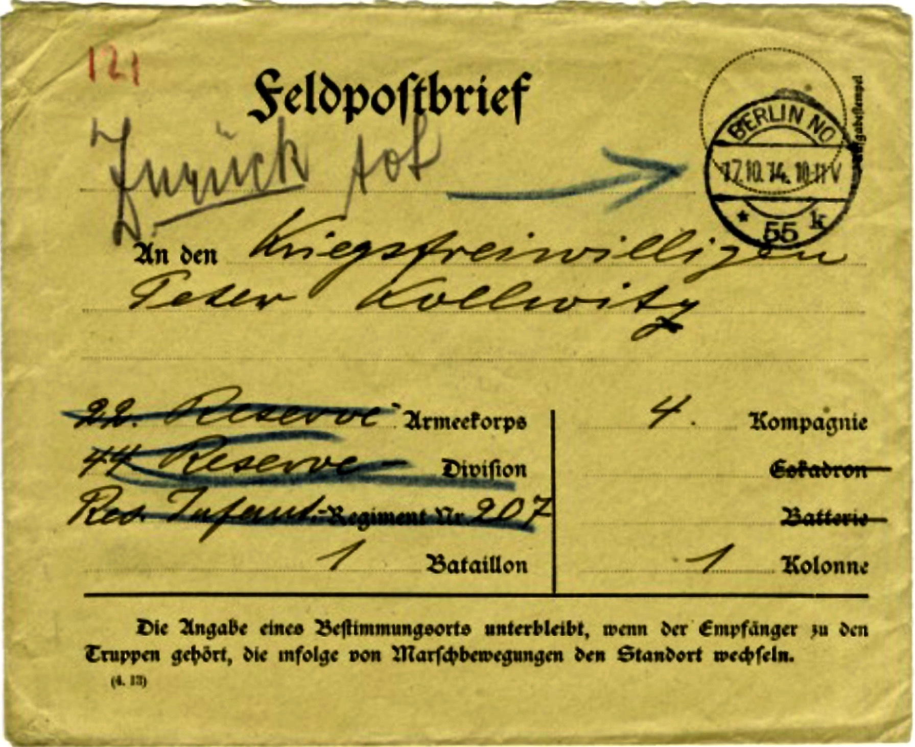 Army postal service letter of 17 October 1914 by Karl and Käthe Kollwitz (1867–1945) to their youngest son Peter Kollwitz (1896–1914), return notation: back to sender – dead.